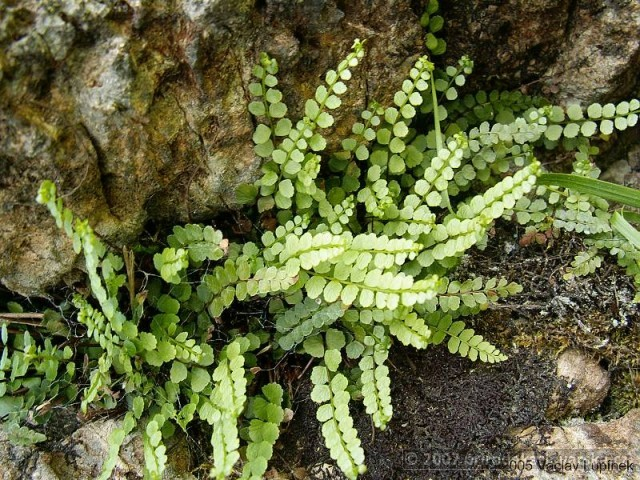 Asplenium adulterinum